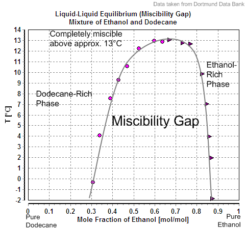 Miscibility gap (LLE) between Dodecane and Ethanol in a limited temperature range